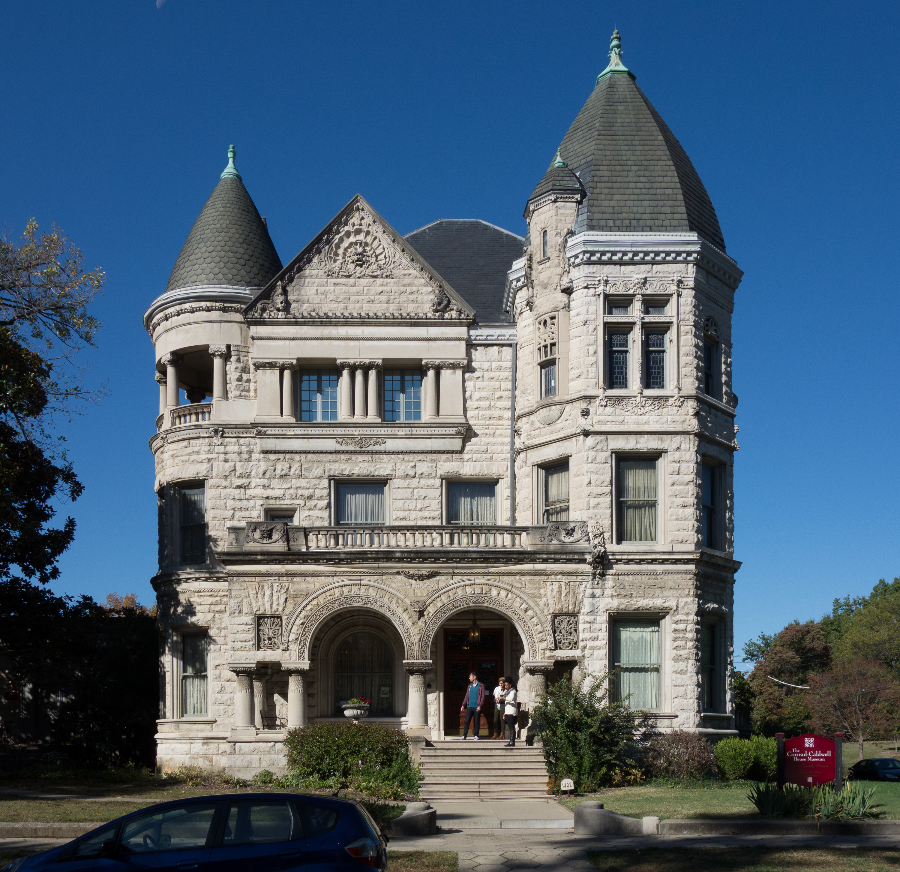 Conrad-Caldwell House Museum, on St James Court, Old Louisville Kentucky.